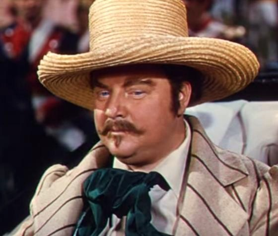 Walter Slezak in The Pirate - trailer (cropped screenshot)